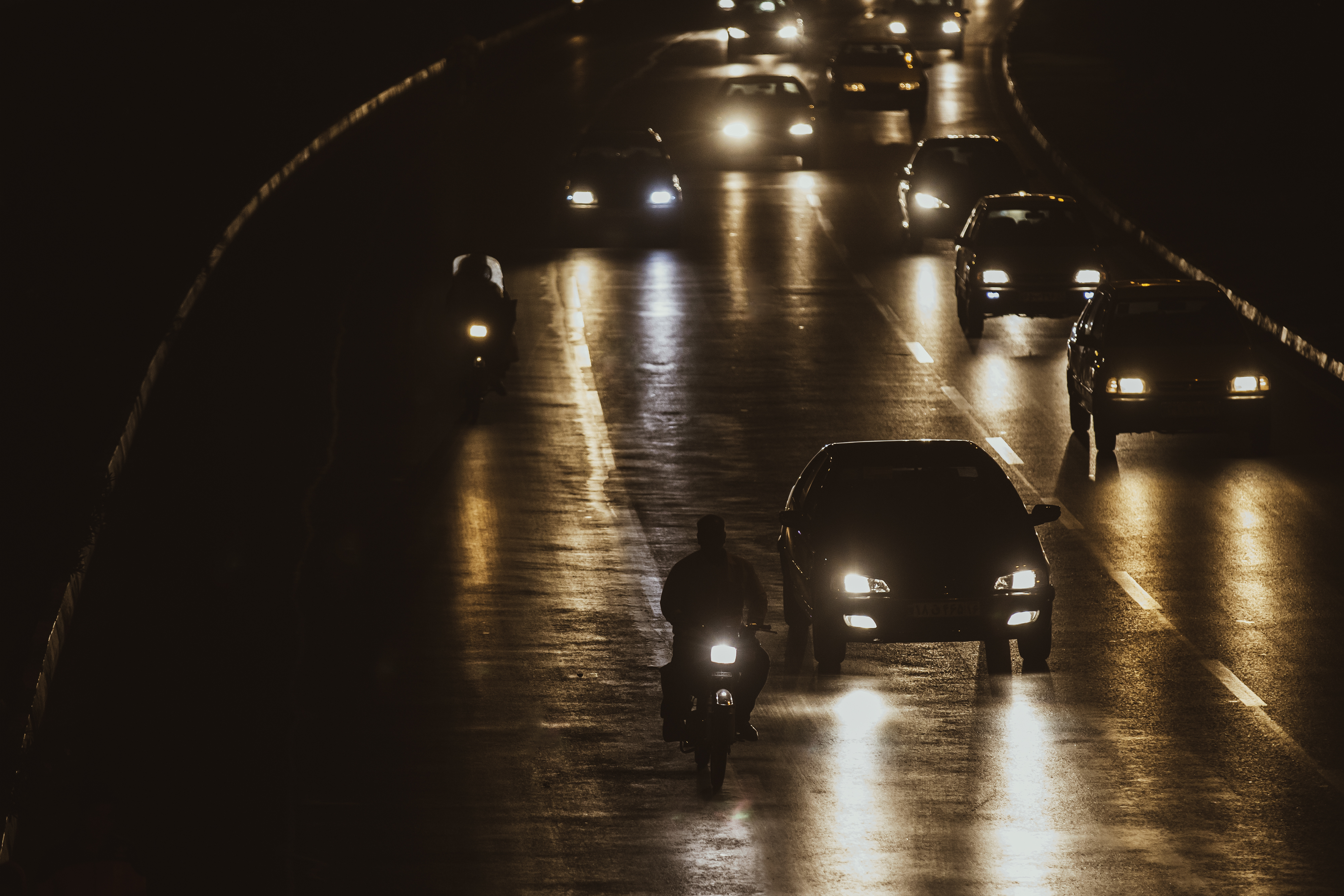 Qom is the seventh largest metropolis and also the seventh largest city in Iran.